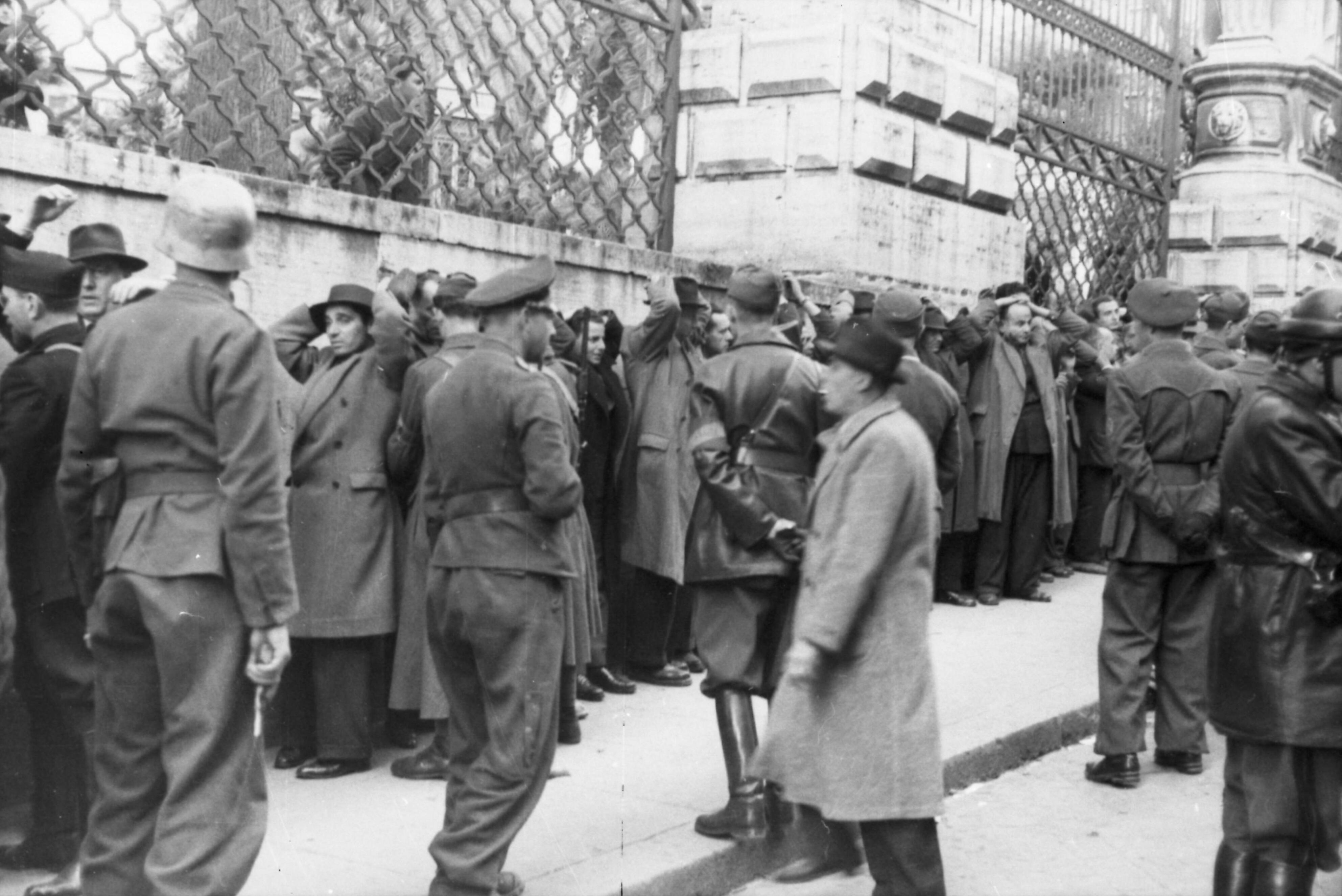 Information added by Wikimedia users.*